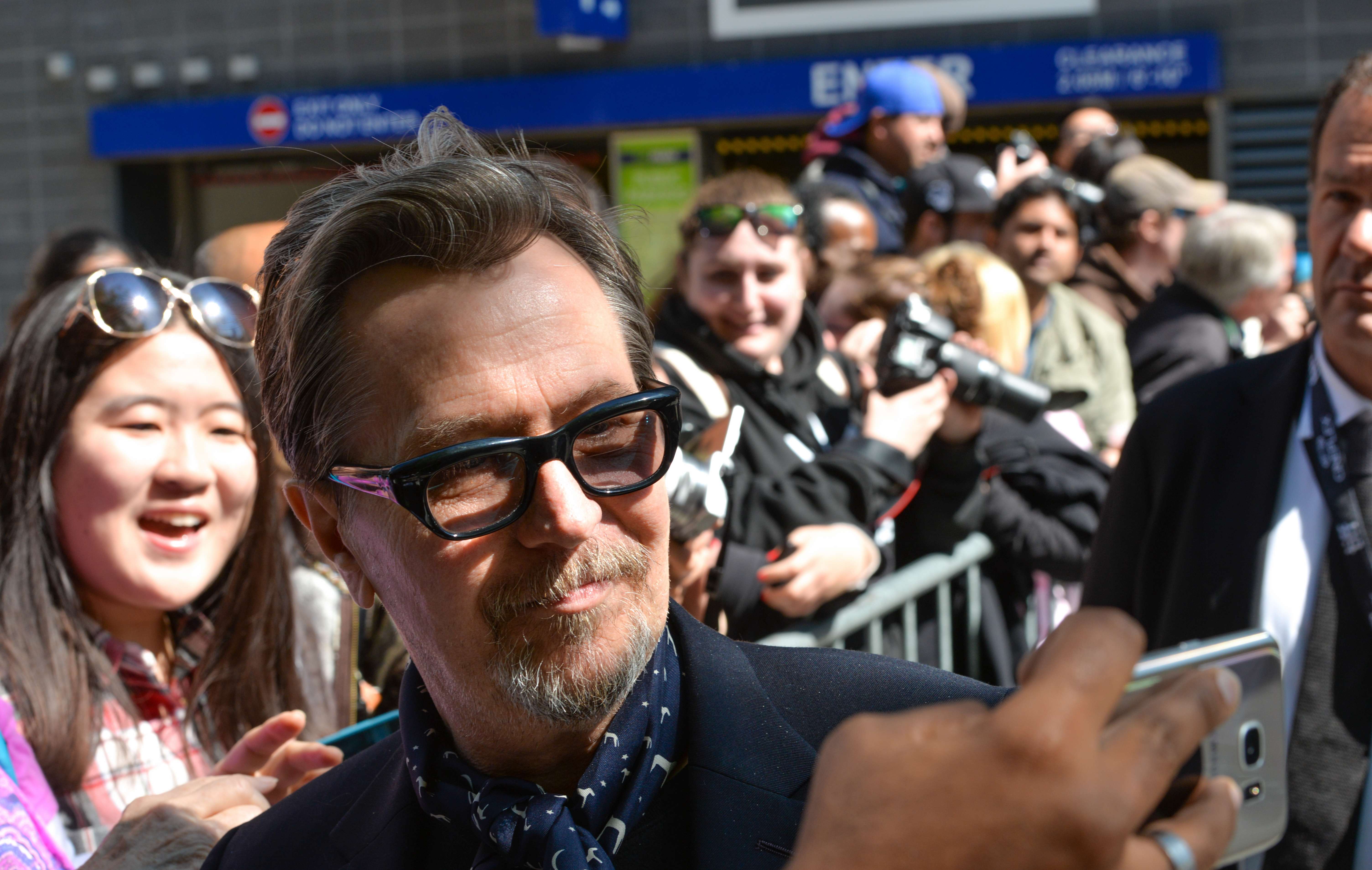 TIFF 2017 Gary Oldman (1 of 1)-3